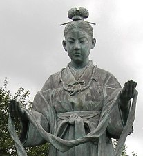 The statue of Otehime(or Koteko). She was a wife of Emperor Sushun who was the 32nd emperor of Japan (587-592).Tradition has it that Otehime inparted the sericulture to people in Kawamata where this statue stand on.